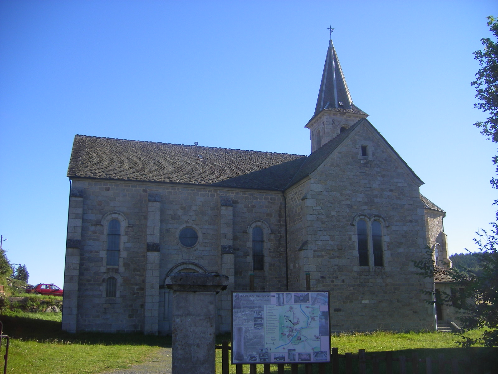 Catholic church of Javols